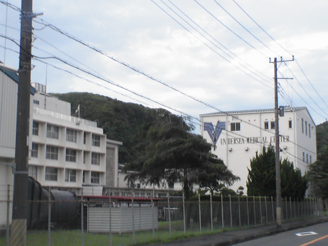 Undersea Medical Center,JMSDF